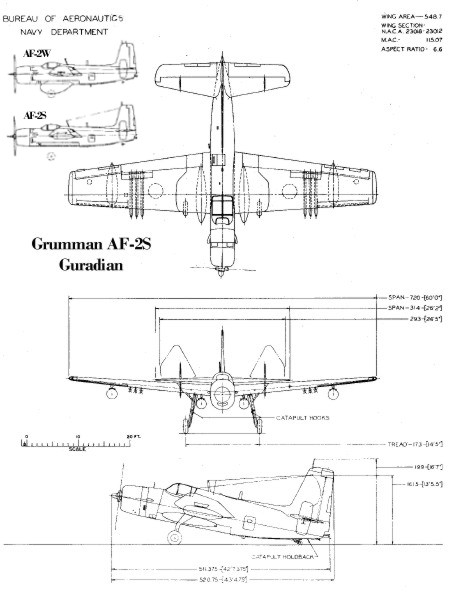 A 3-side-view of a Grumman AF-2S Guardian.